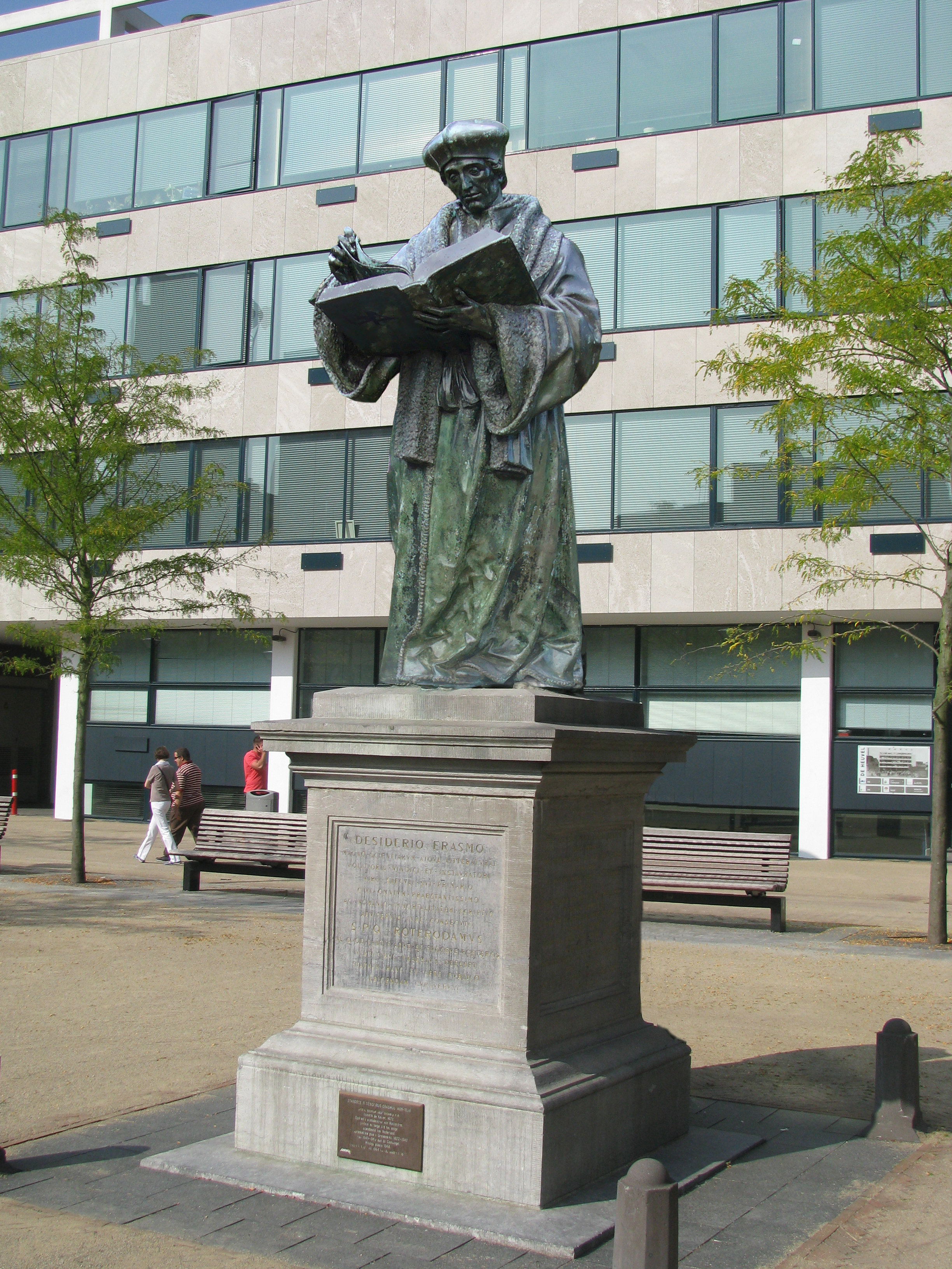 The oldest bronze statue in Holland, representing Desiderius Erasmus, designed by Hendrik de Keyser in 1672, forged by Jan Cornelis Ouderogge of Rotterdam in the "Geschuthuis" in the Hoogstraat.